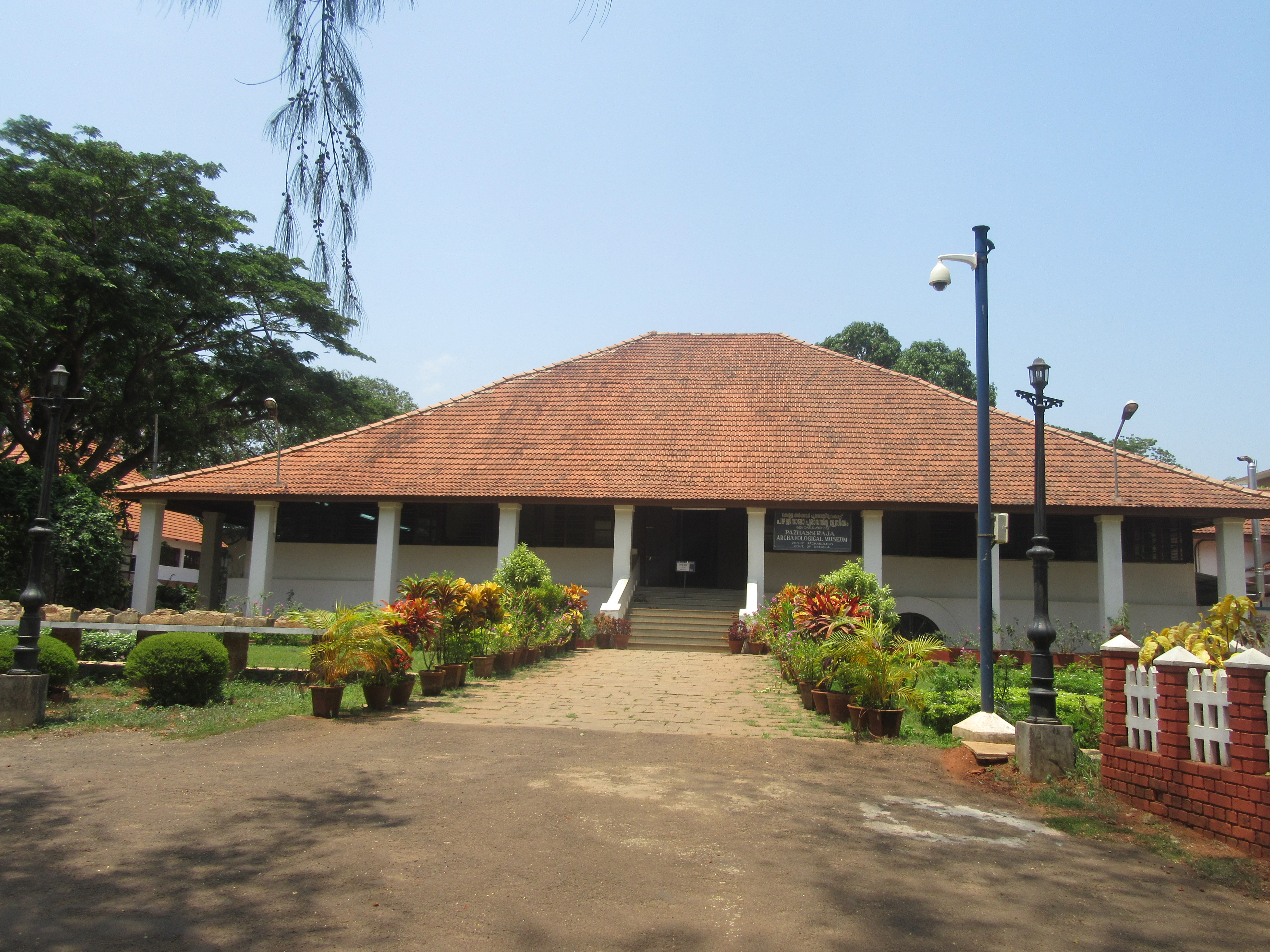 Pazhashi Raja Museum